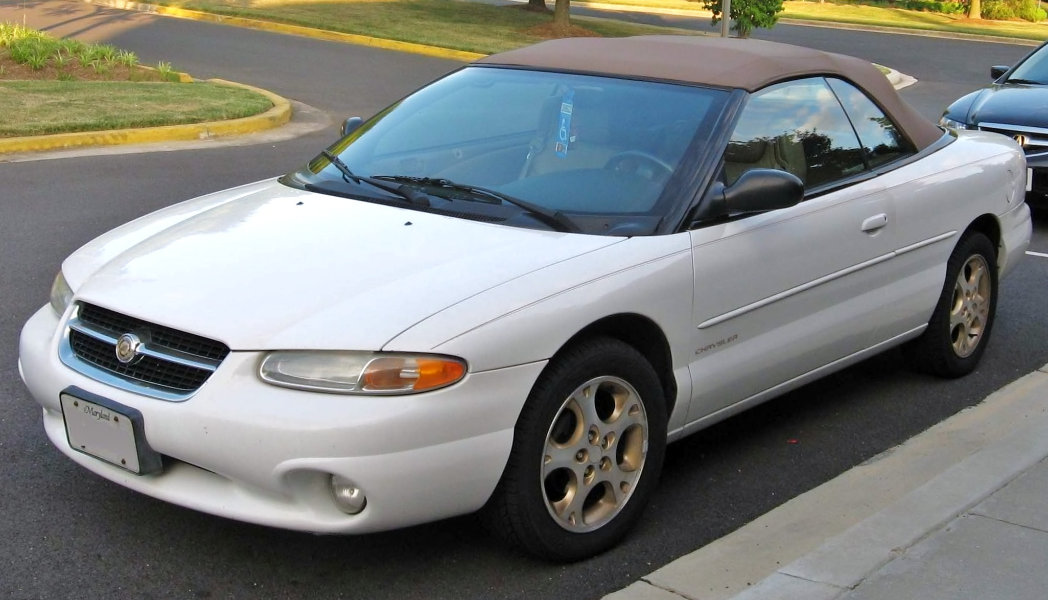 1996-1998 Chrysler Sebring photographed in USA.